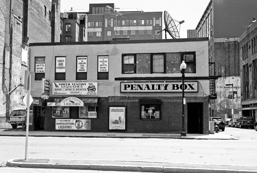 Sports bar close to TD Garden, Boston, MA